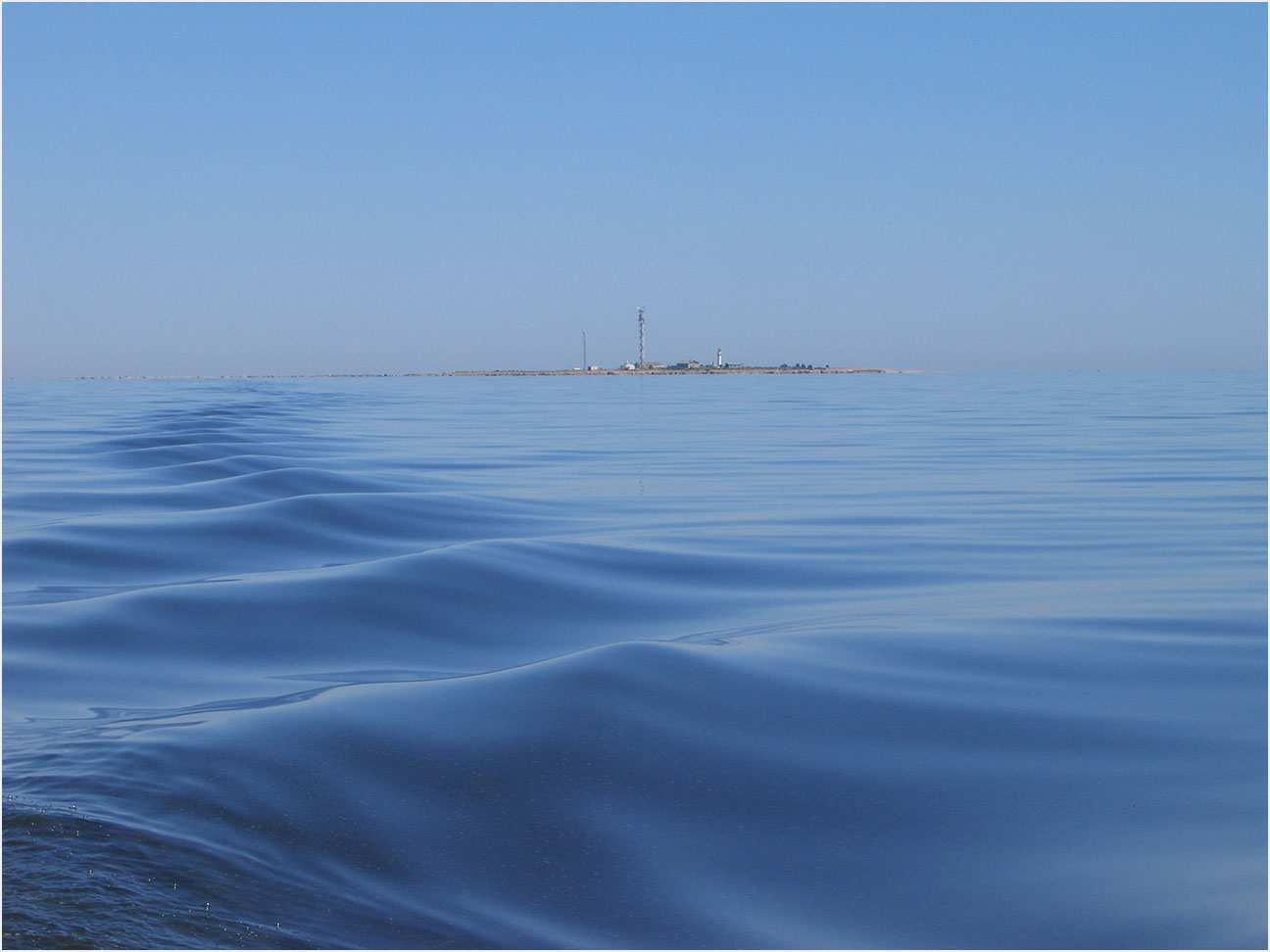 Vaindloo island